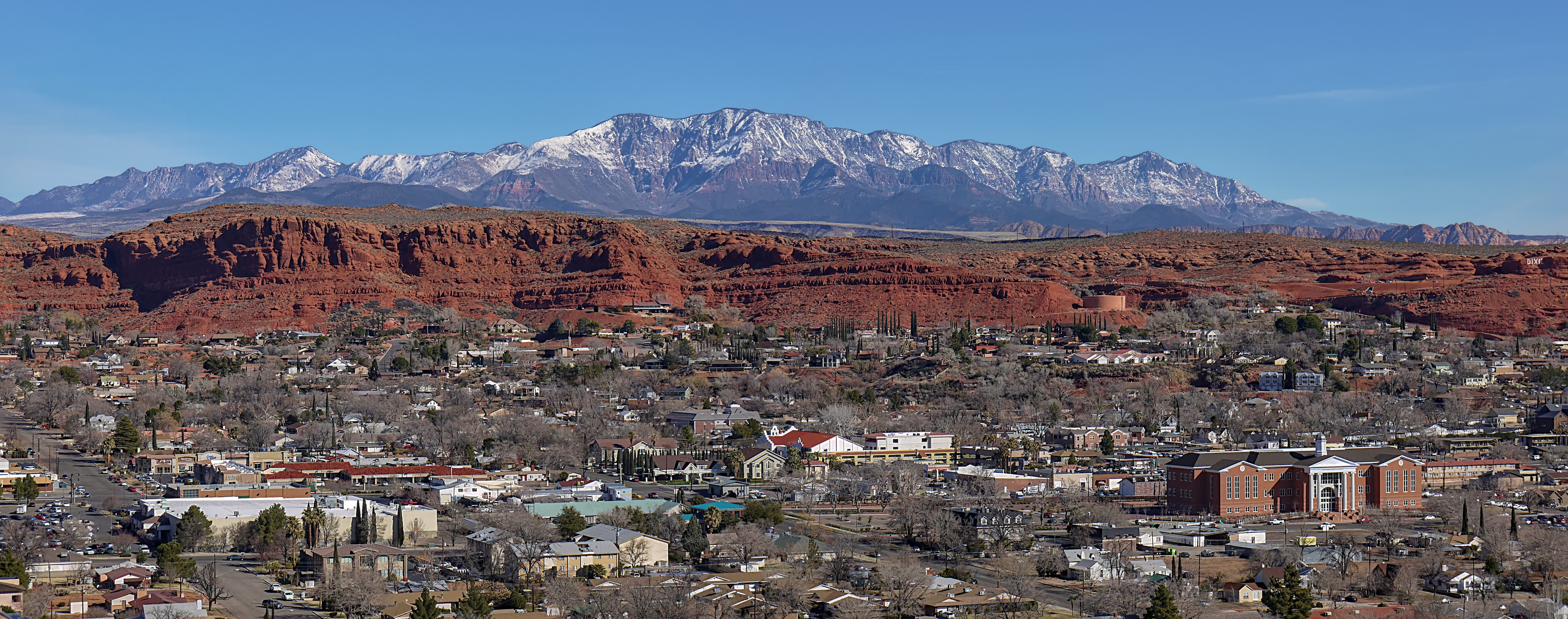 Pine Valley Mountains above St.George, Utah.